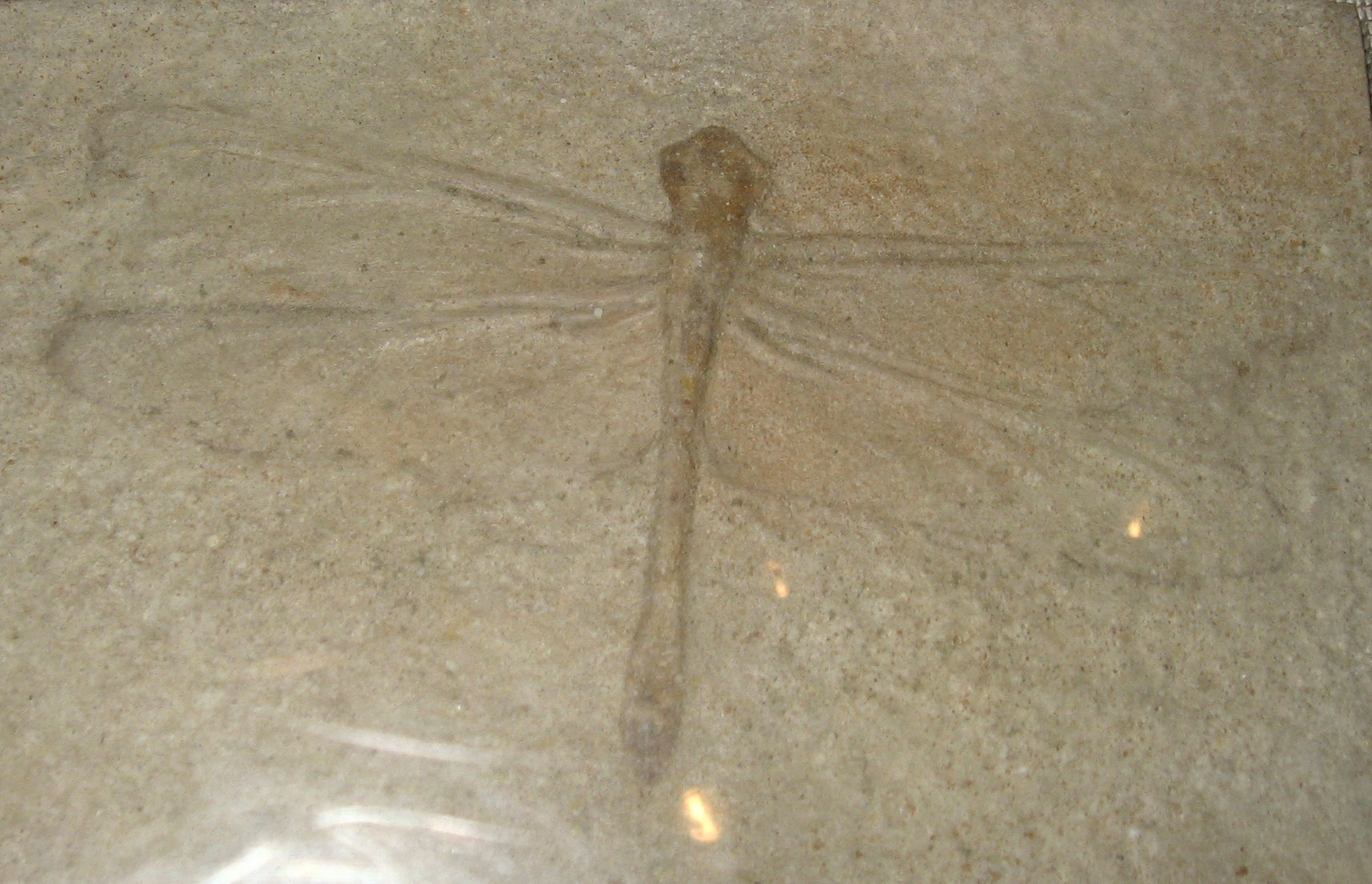 Replica of a fossil petalurid dragonfly Protolindenia wittei (incorrectly labelled as Petalura eximia), Upper Jurassic (145 million years old), Solnhofen Plattenkalk, Germany. Photographed at Dinoday 2009